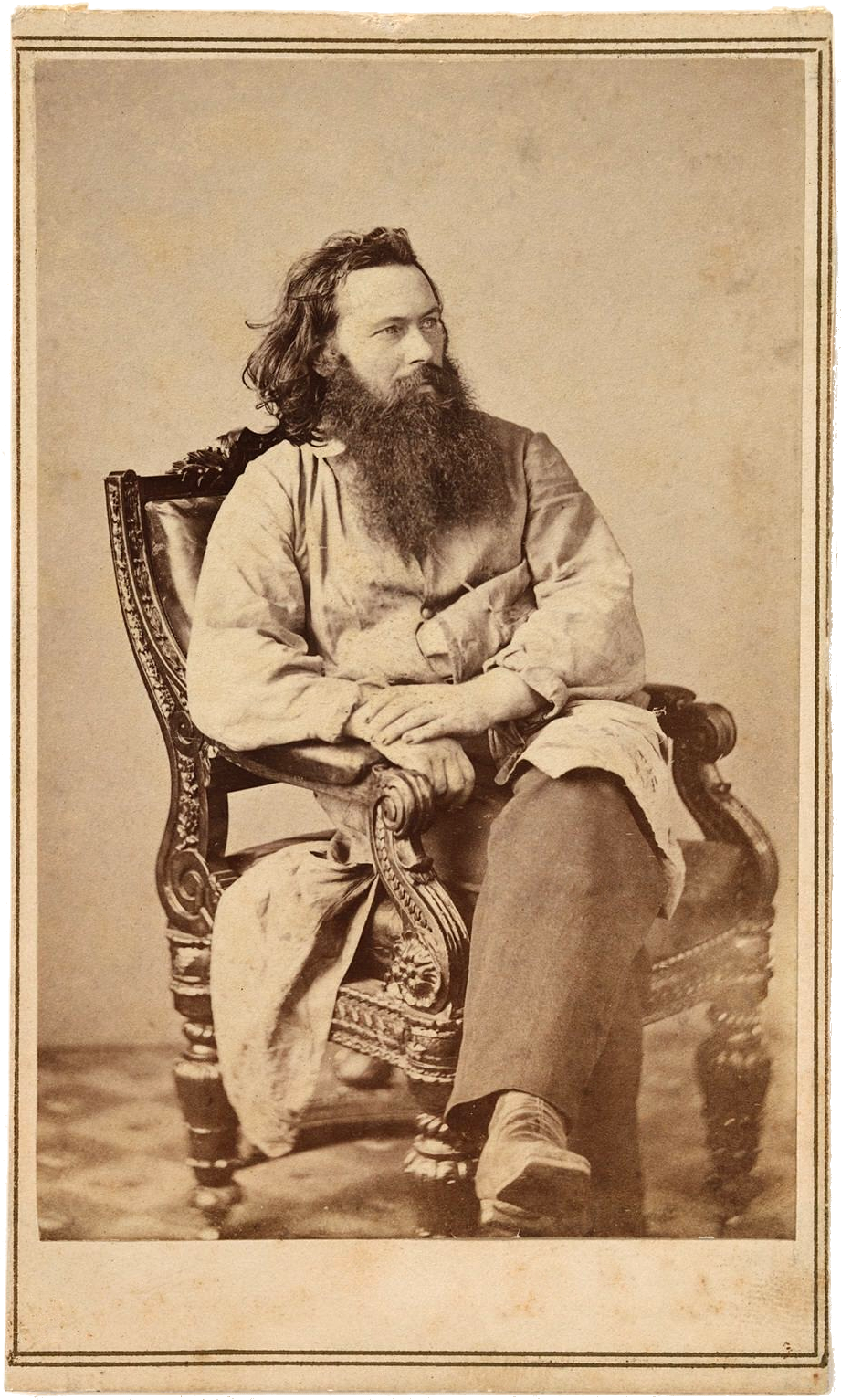 Albumen silver print portrait photograph of Alexander Gardner